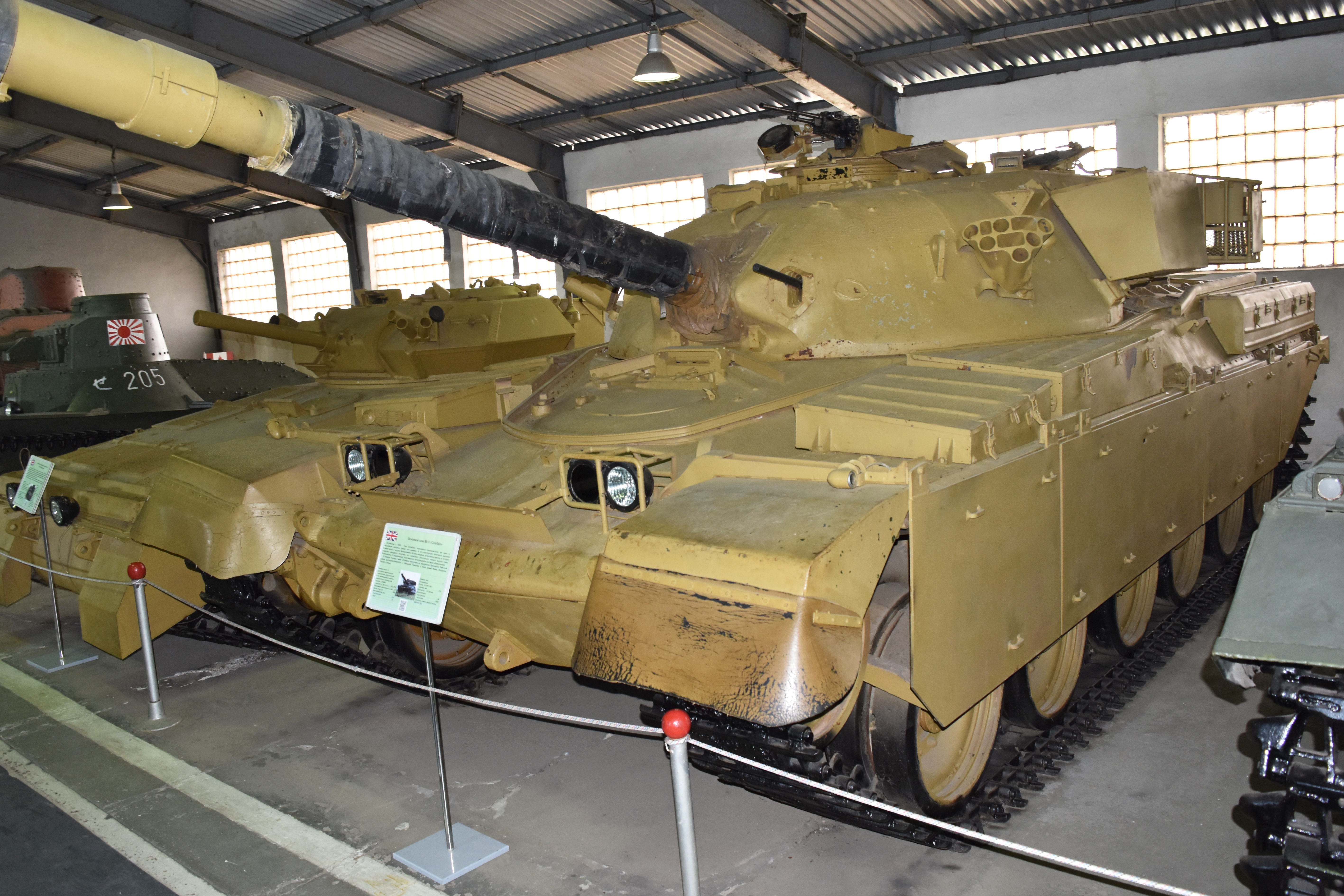 British Cold War era Main Battle Tank Official designation:- FV4201 Main Armament:- 120mm L11A5 Rifled gun As well as being in British Army service between 1966 and 1995, the Chieftain was also exported to several Middle East countries. This is believed to be one of 707 Chieftains delivered to Iran and was probably captured intact during fighting and sent to Kubinka for trials. It is now on display in what is best known as Hall 6 of the Kubinka Tank Museum, although its official title is now Pavilion 6 in Area 2 of the Park Patriot museum. Kubinka, Moscow Oblast, Russia. 24th August 2017